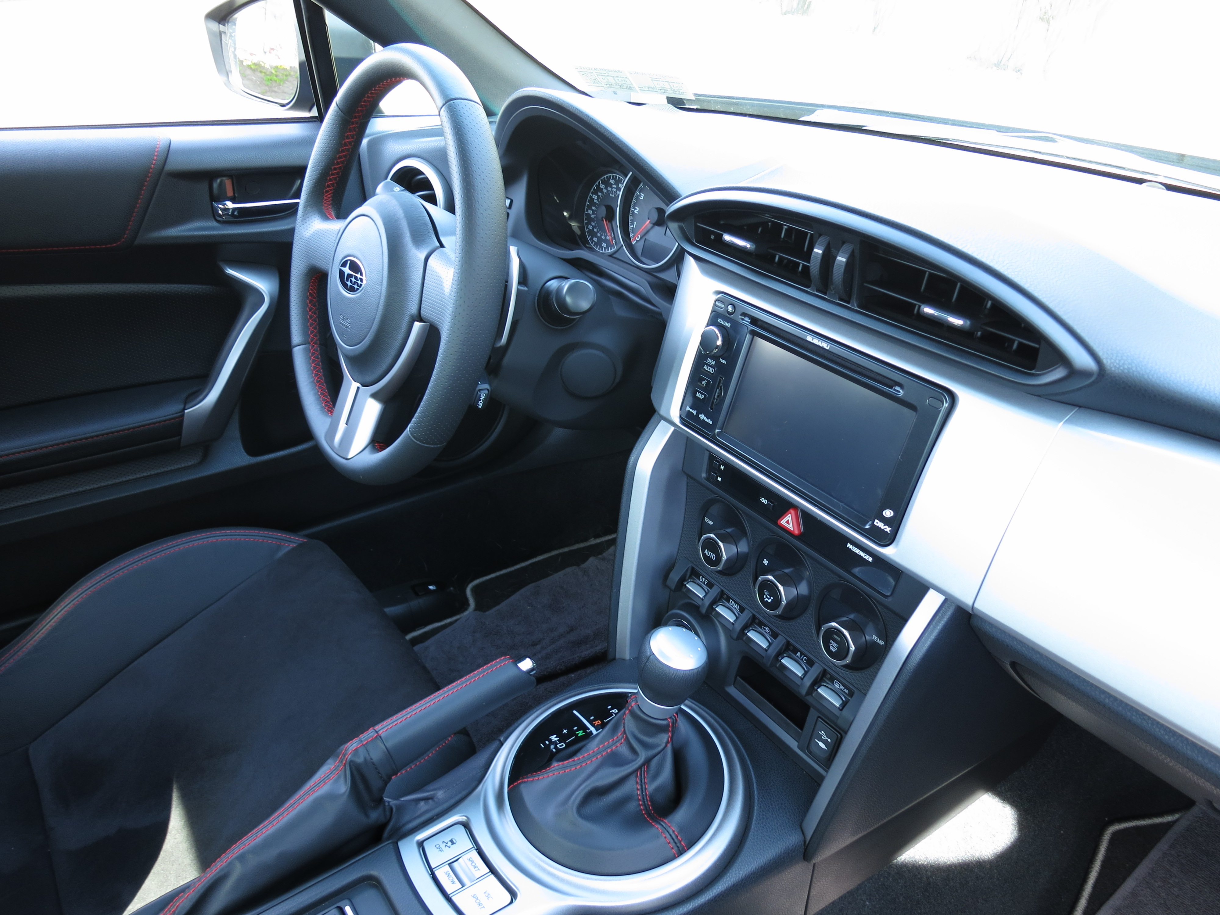 The interior of a Subaru BRZ Limited with an automatic transmission.